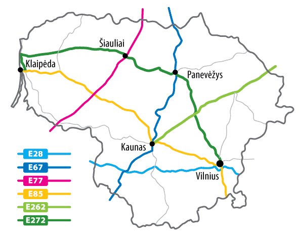 Lithuania-roads-(European roads), corrected typo i.e. now E28 road is included, previously was 2* E272.